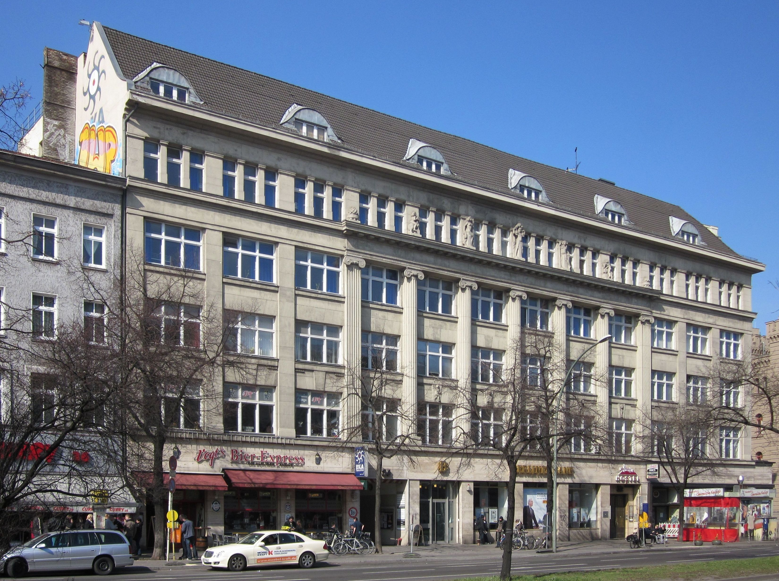 Commercial building Mehringdamm 32/34 in Berlin-Kreuzberg. It was constructed from 1913/1914 to a design by Daniel Ehrenfried. It has been designated as a historic landmark.